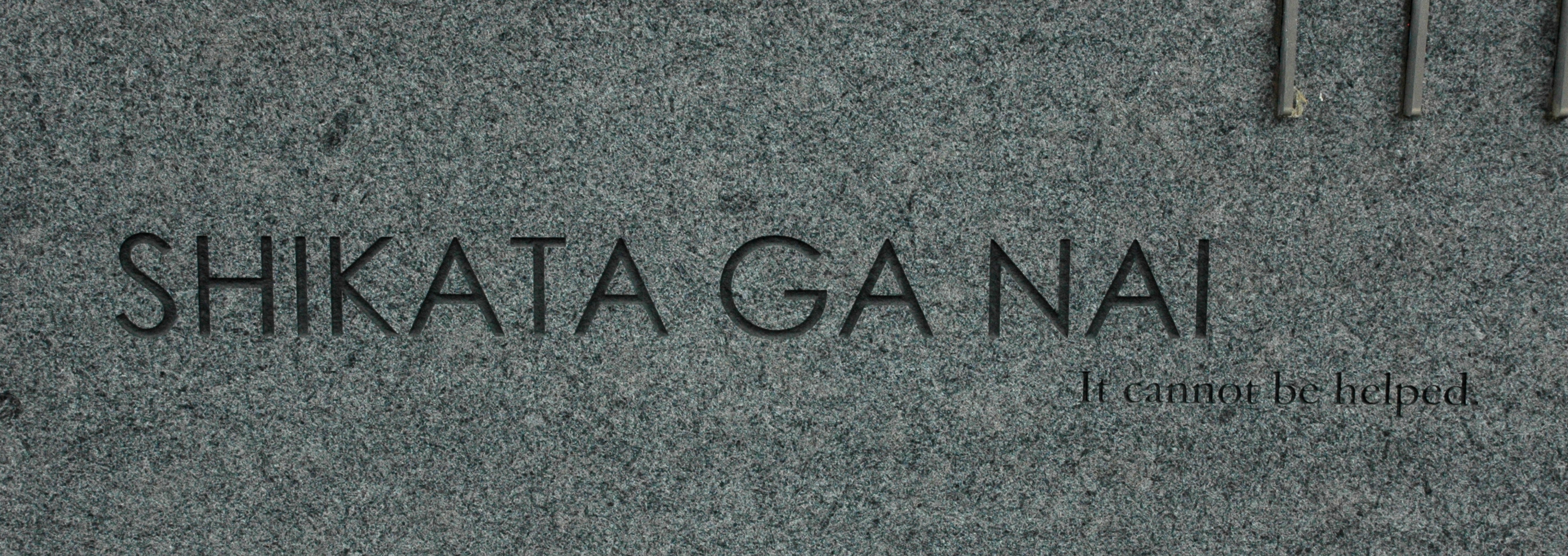 An inscription carved in marble in Japantown, San Jose, CA, USA. The inscription reads "Shikata Ga Nai / It cannot be helped"